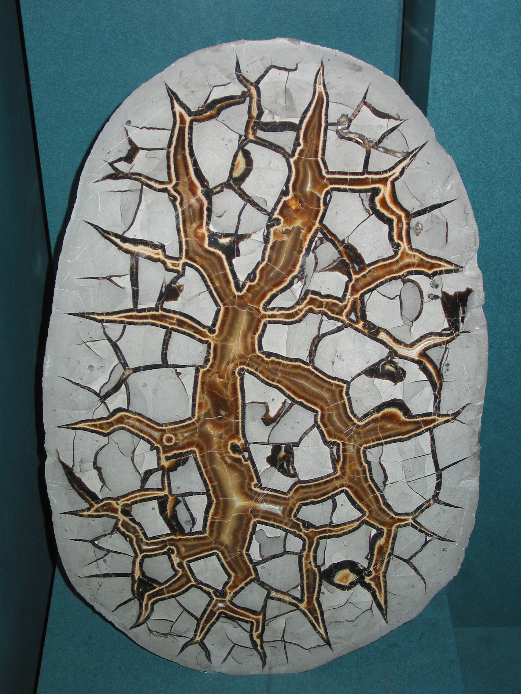 A septarian nodule on display as part of the Pinch Collection at the Canadian Museum of Nature in Ottawa, Ontario.